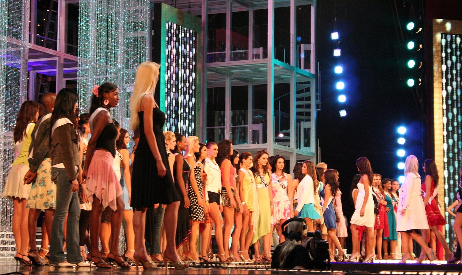 Contestants during rehearsals for the Miss Universe 2007 pageant in Mexico City, Mexico